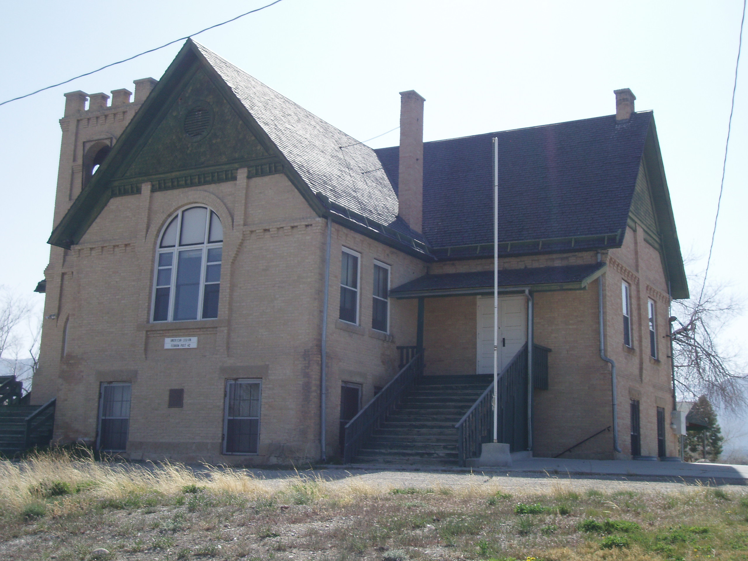 American Legion Post 42, a Ferron, Utah landmark originally built as a Presbyterian school